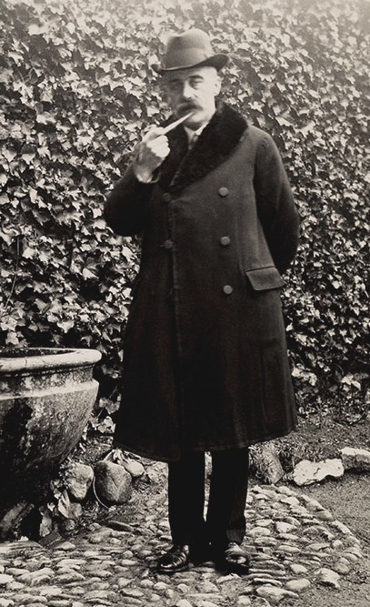 Charles Du Bos (1882-1939) pictured between the two world wars